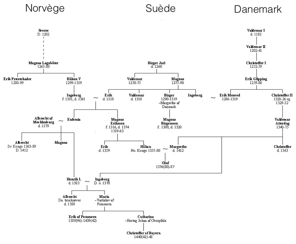 Family tree of the Monarchs of Kalmar Union (translated from Slaegtstavle til Kalmar2.gif)